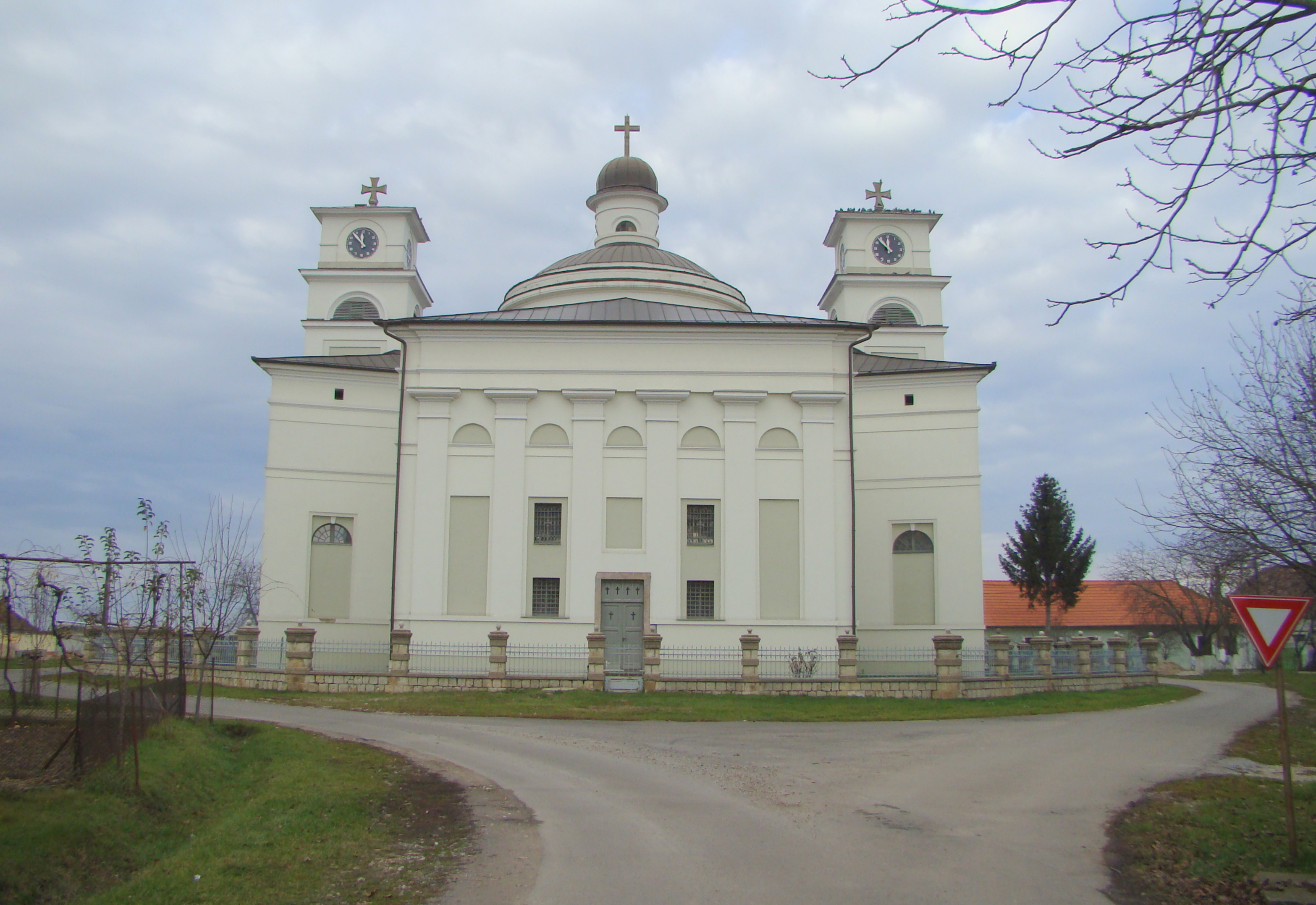 Roman Catholic church in Palota, Bihor county, Romania